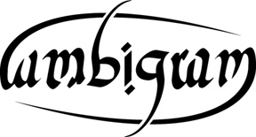 Ambigram of the word "ambigram" by Punya Mishra